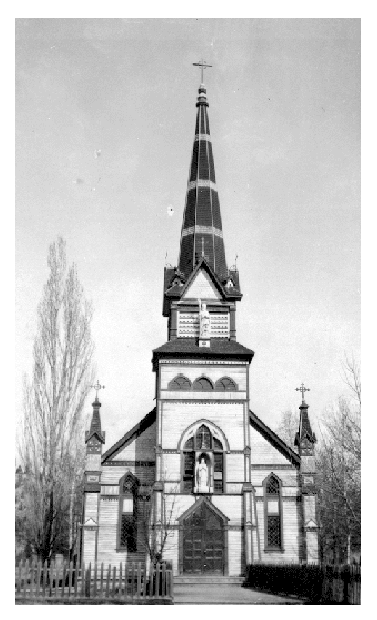 Photo taken:190? Photographer:Unknown Source:BC Archive #F-00106 [1]